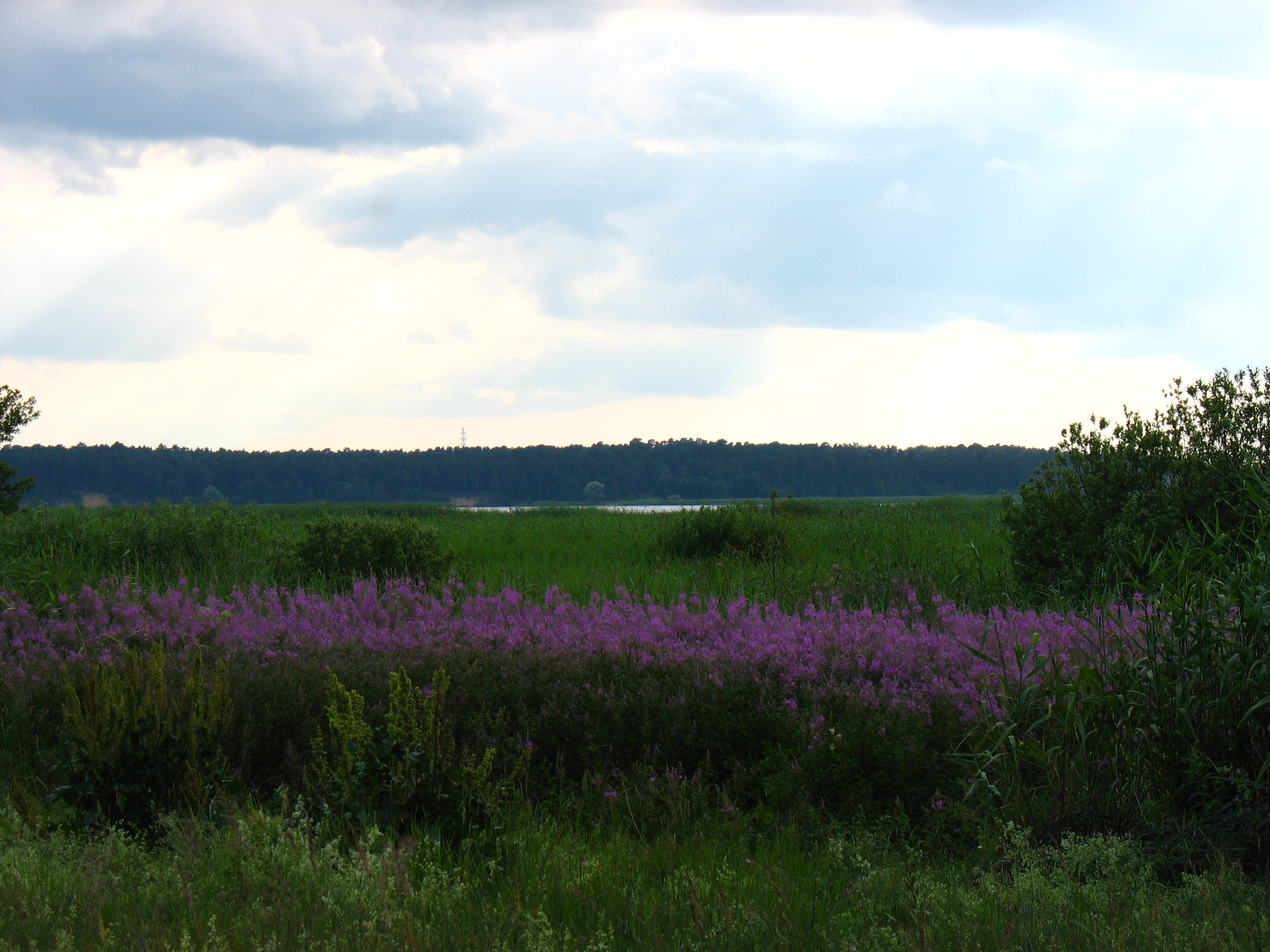 Jaunciems, Northern District, Riga, Latvia